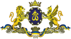 CoA of Halych, Ukraine